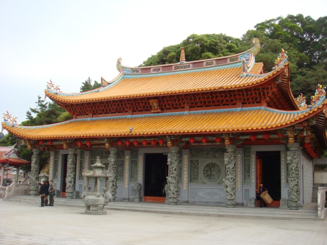 Magang Mazu Temple